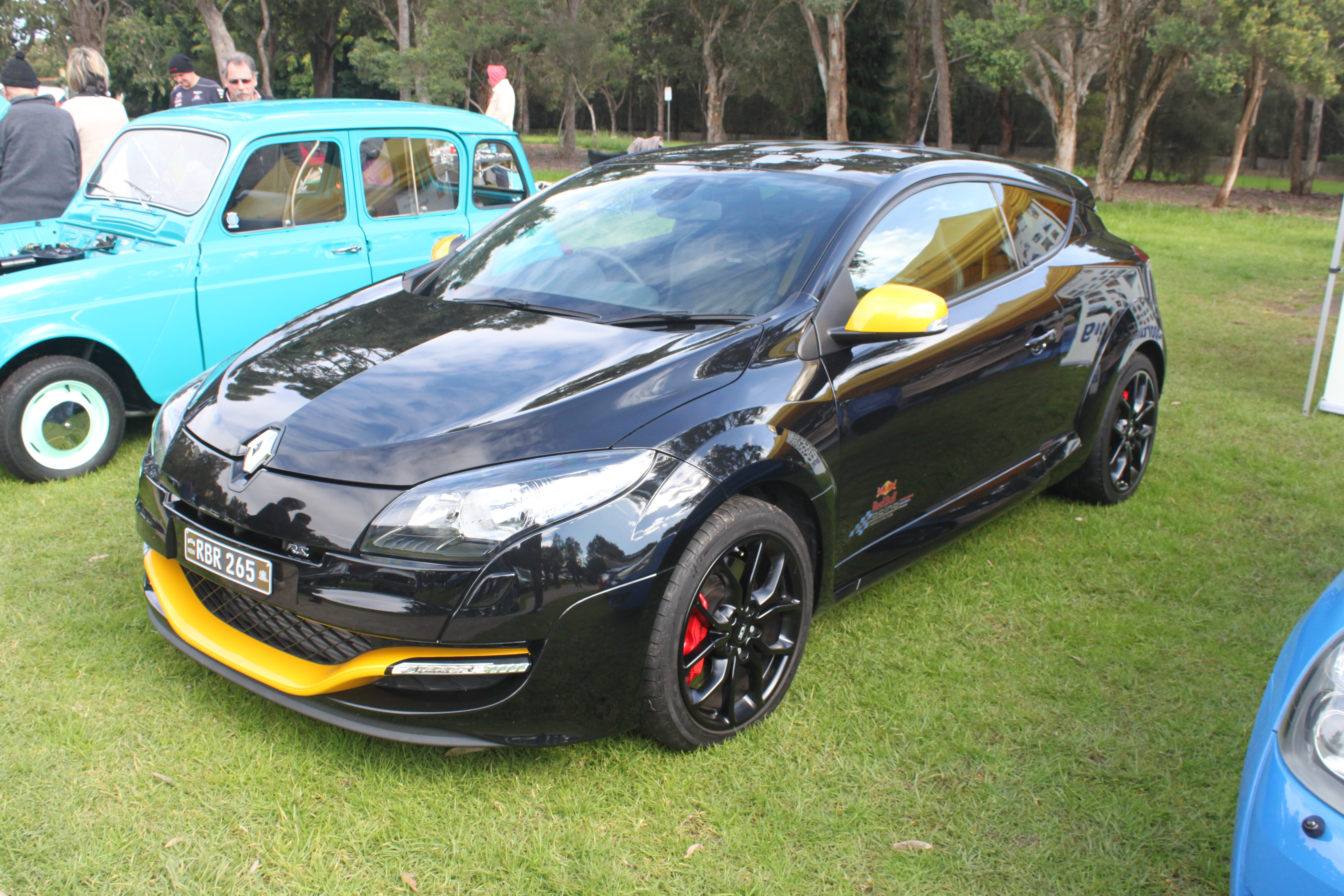 All French Day, Silverwater Park, NSW July 2015